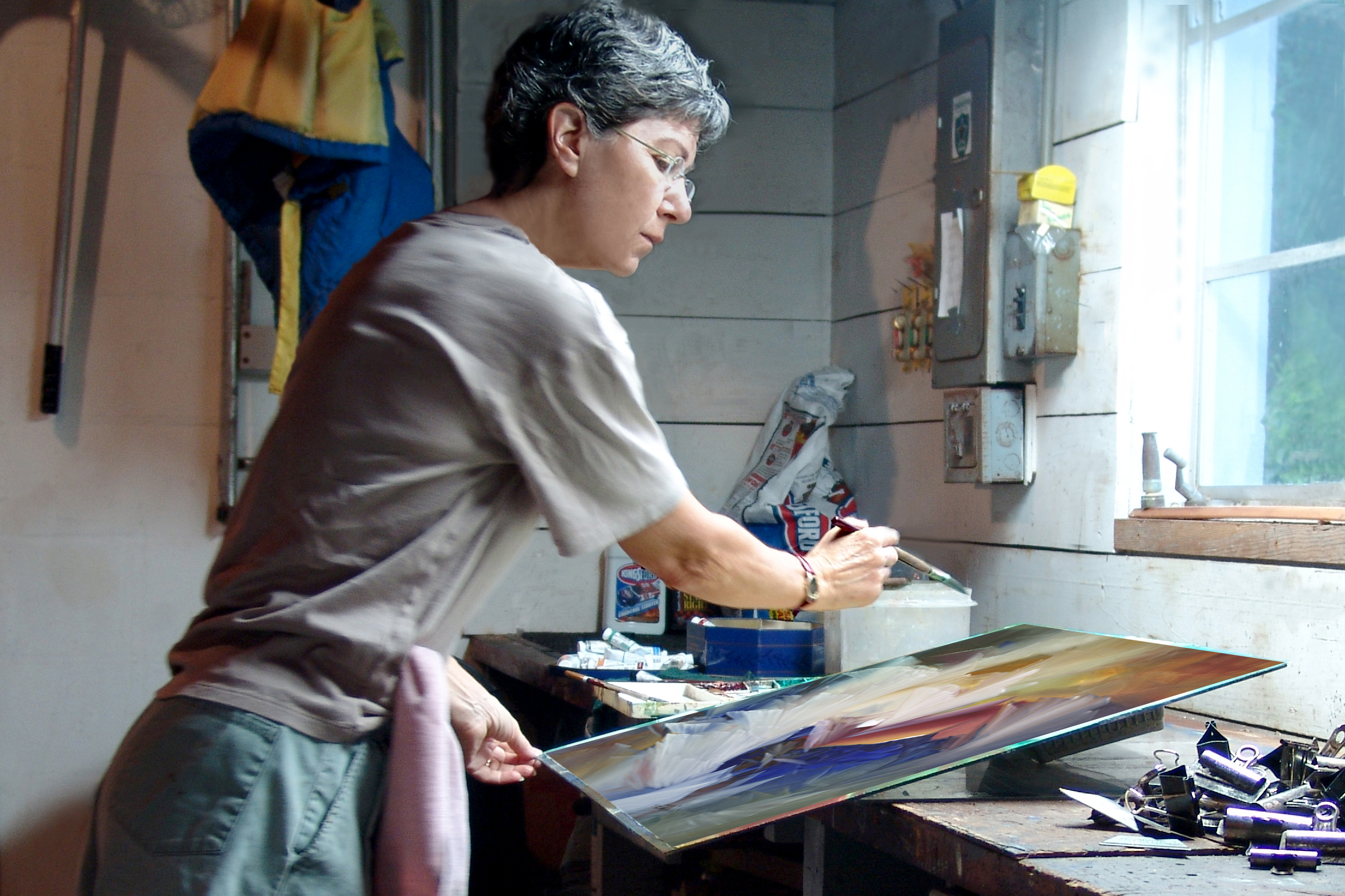 Mary Endico at work on an haute conduite watercolor while wintering in Madeira Beach, FL January 5, 2007. This photo was taken in the garage of the vacation house owned by her mother Katherine Endico which the family would share.